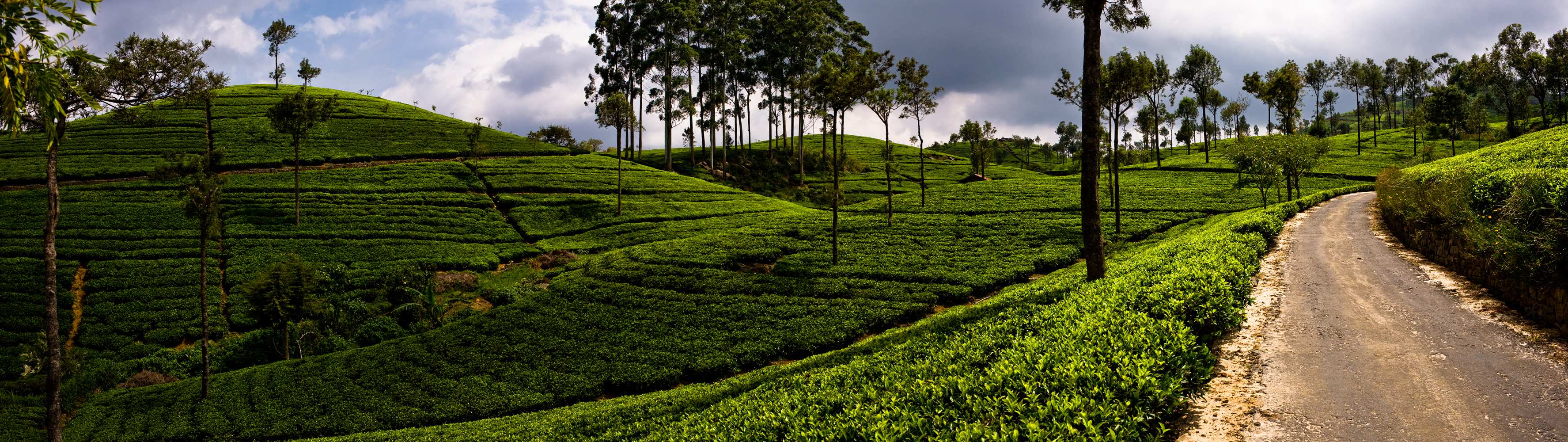 Hill Country near Haputale